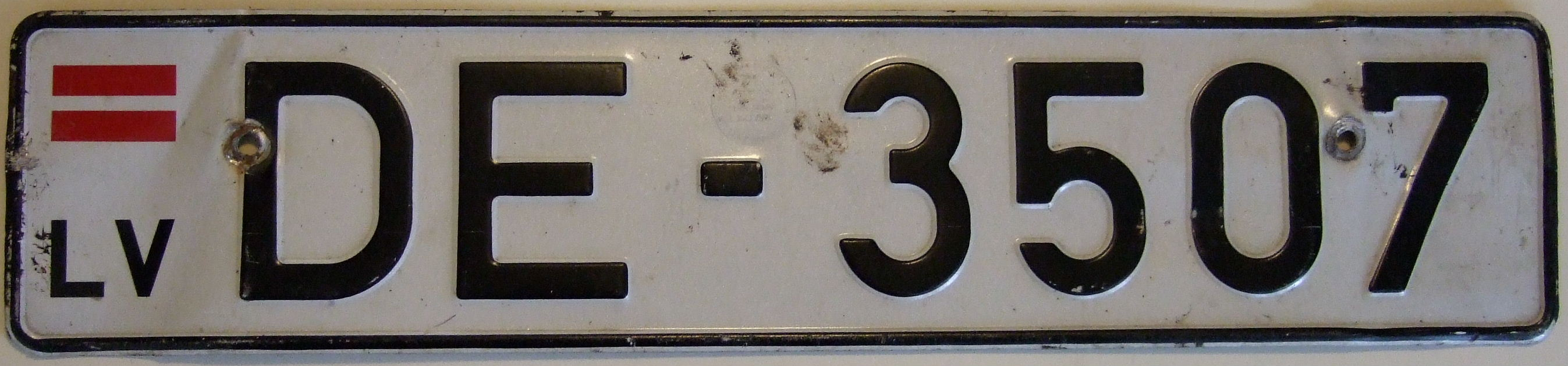 Latvian plate issued after the fall of the USSR.